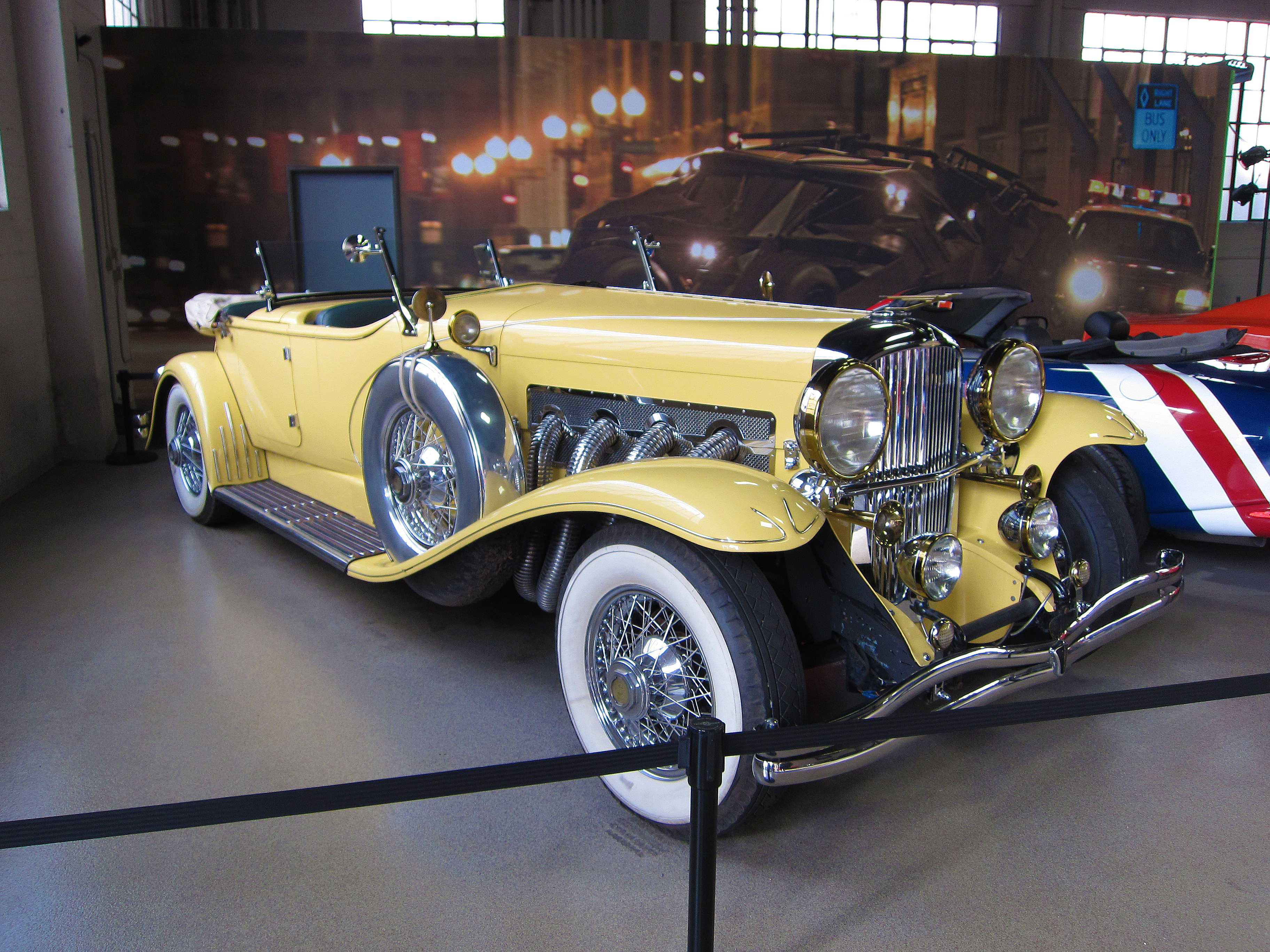 Original car used in The Great Gatsby displayed at Warner Bros. Studios, Burbank, , California, USA.